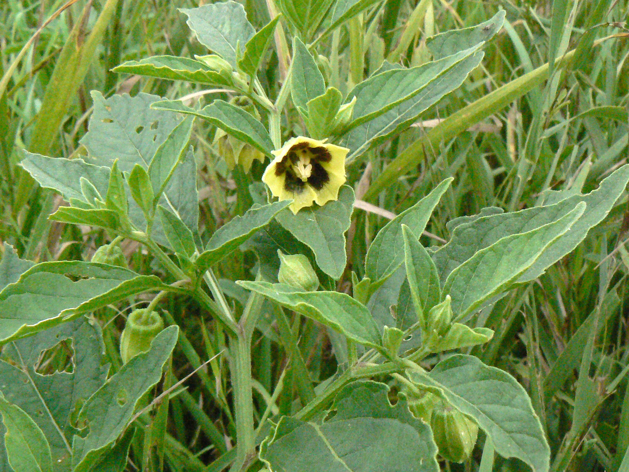 Physalis heterophylla Clammy Ground Cherry